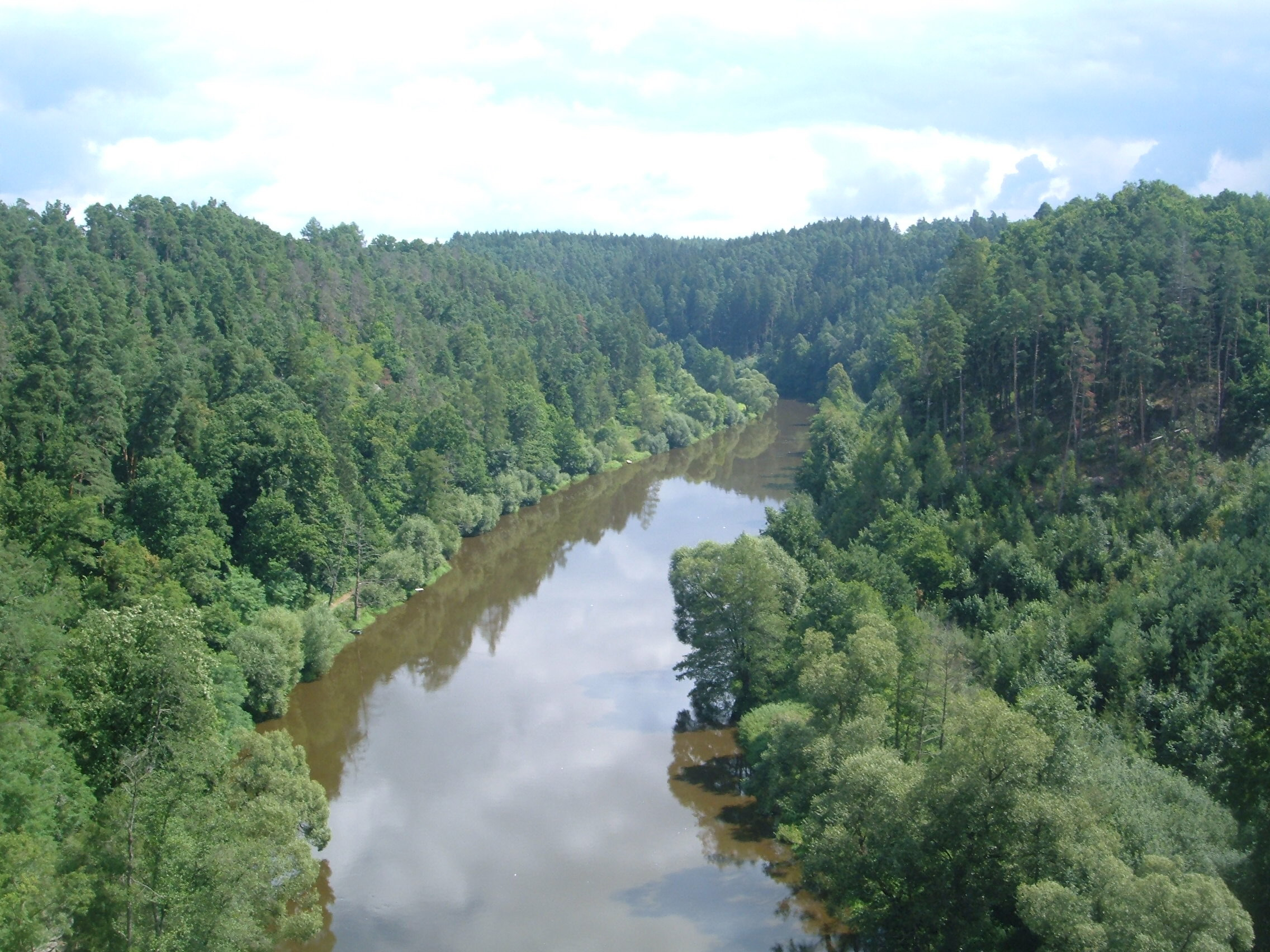 own work